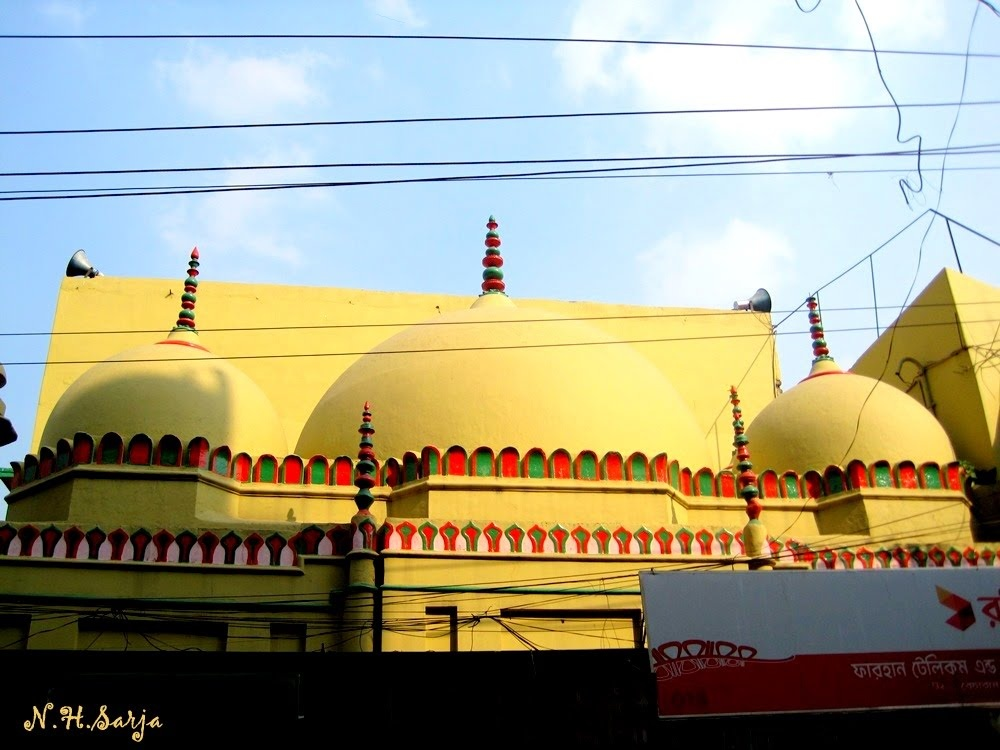 dfdsf